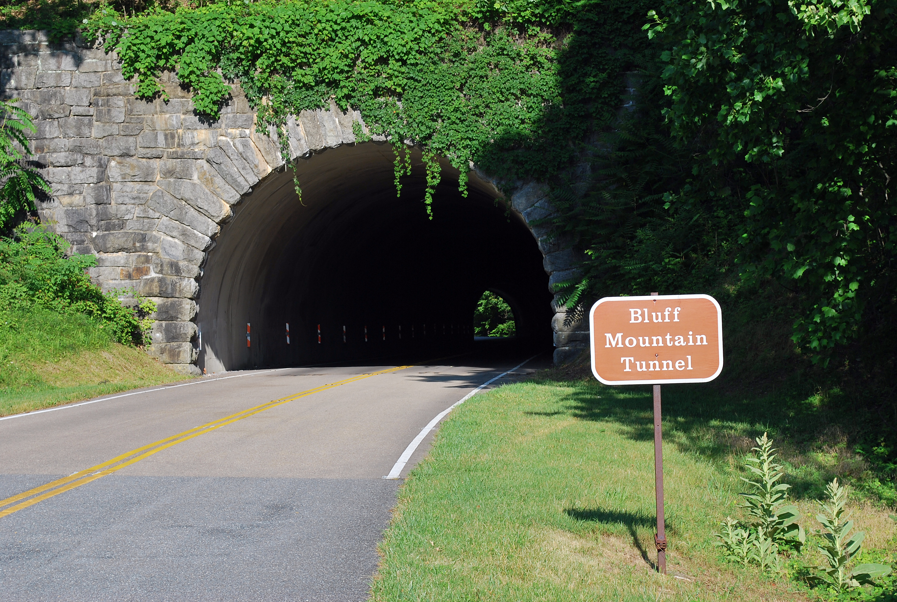 Blue Ridge Parkway, Virginia. Blue Ridge Mountain Parkway